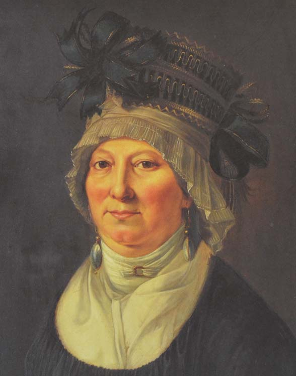 Portrait of the banker Karoline Kaulla, painted by Johann Baptist Seele (1774-1814)